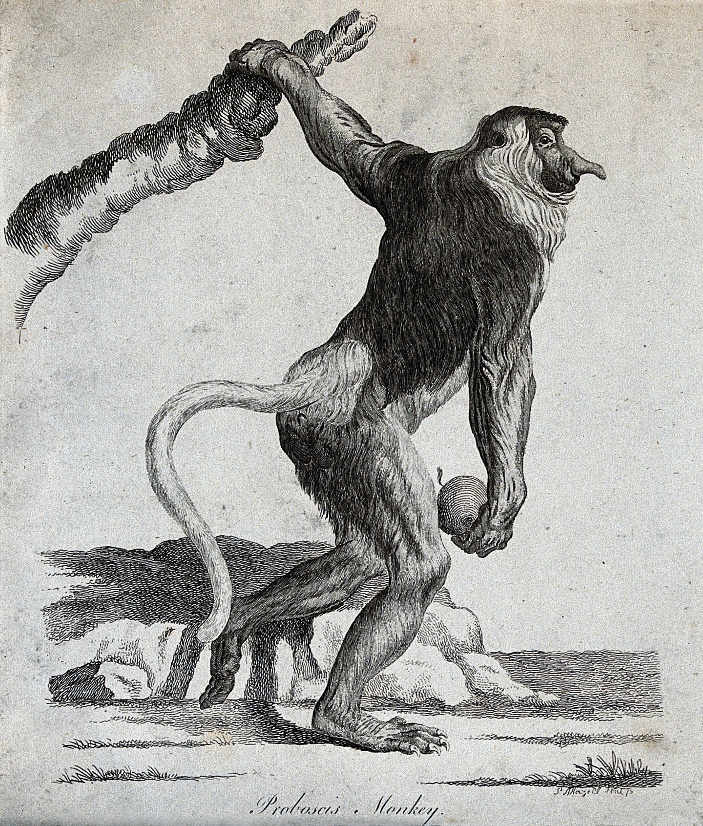 A Proboscis monkey holding on to a tree with its left arm while clasping a round object in its right hand. Etching by P. Mazell. Iconographic Collections Keywords: Peter Mazell